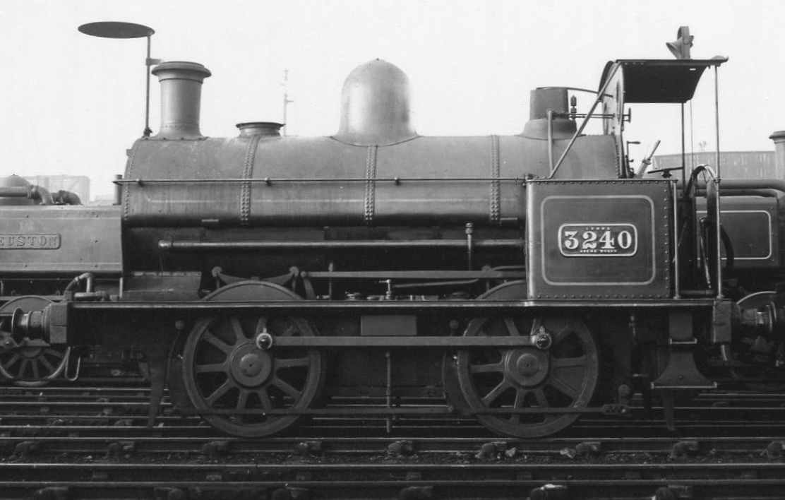 Photograph of LNWR engine No. 3240 1201 Class